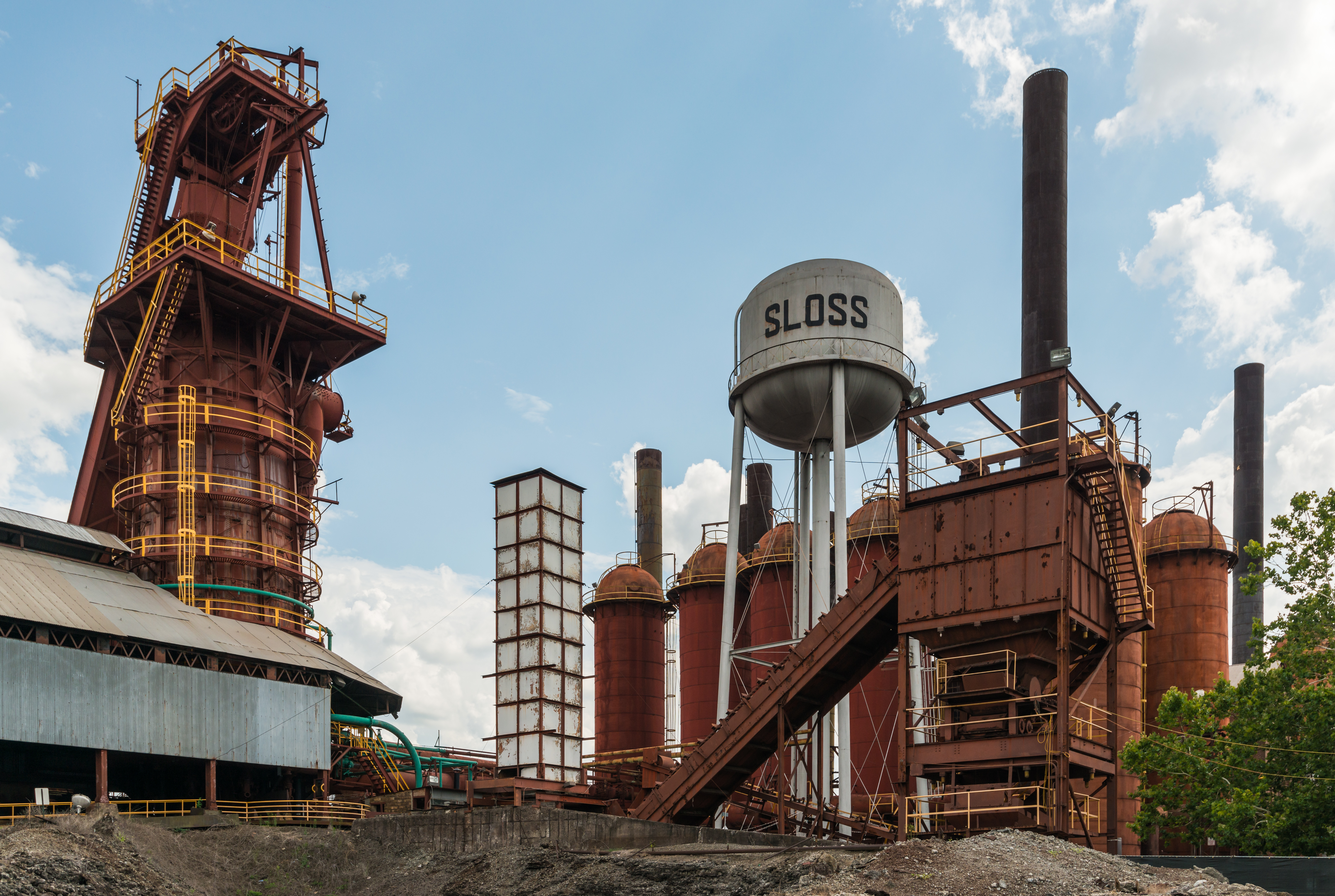 A north view of the Sloss Furnaces, Birmingham, Alabama